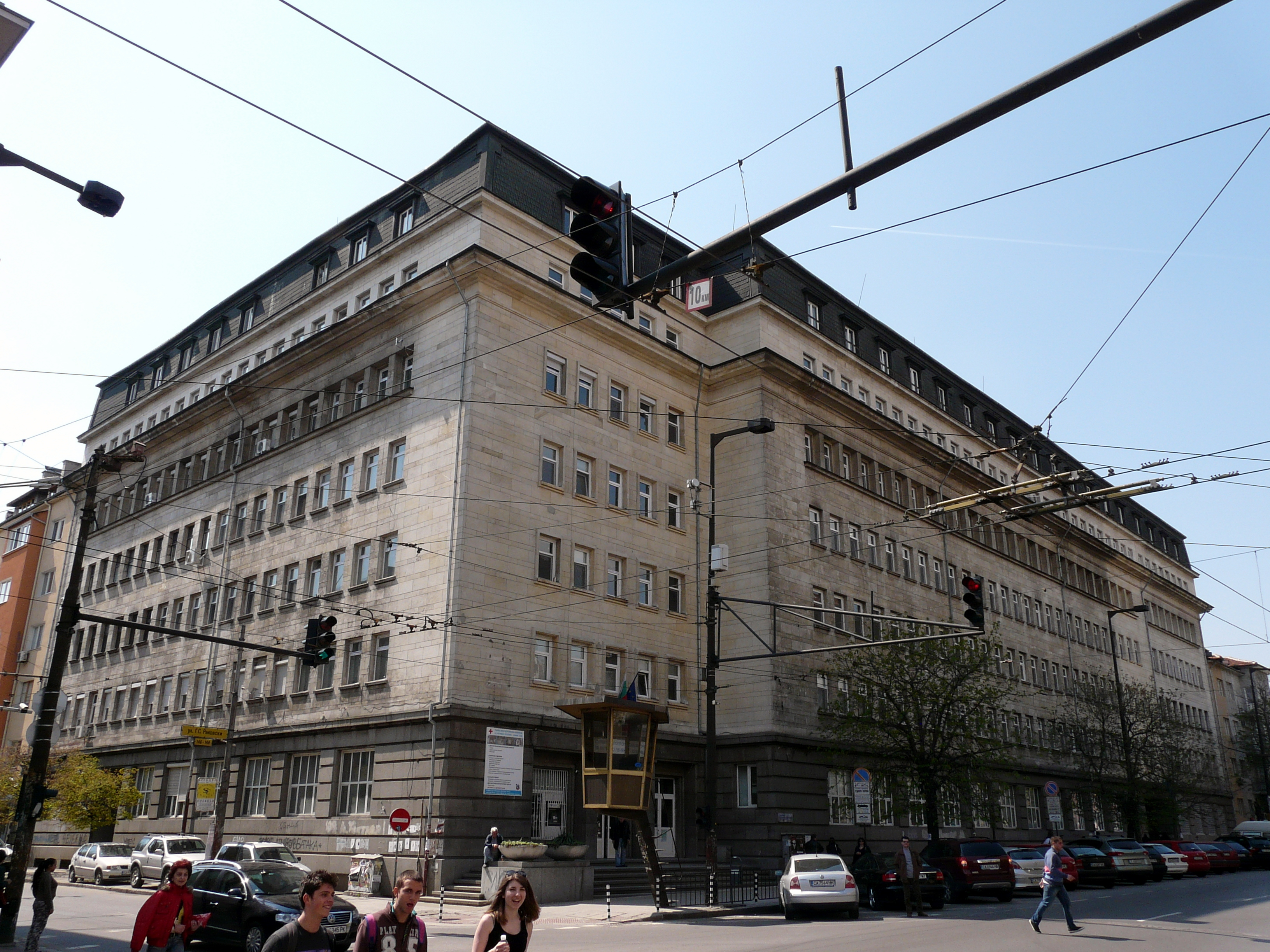 1st MBAL - Sofia